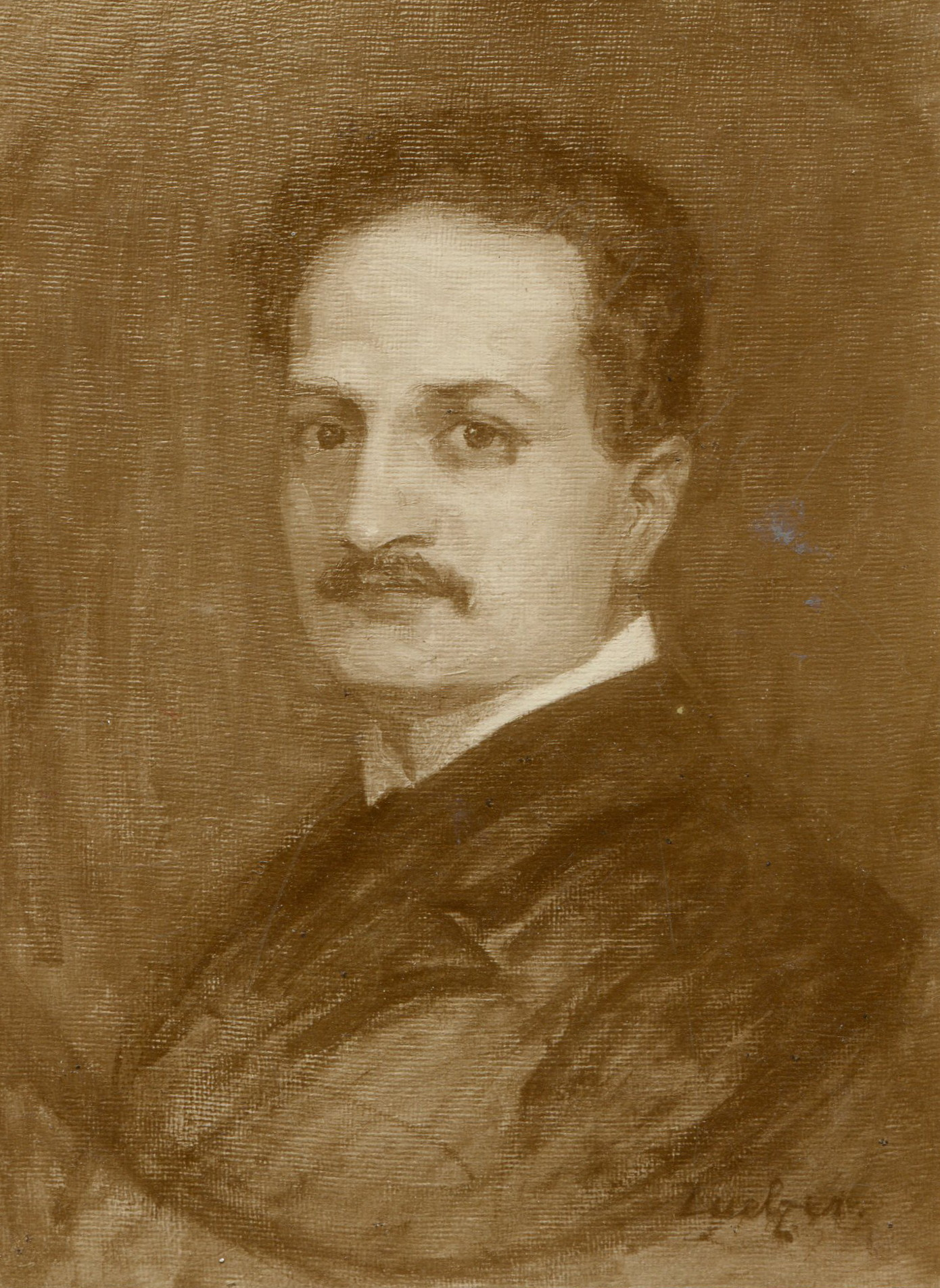 Ludwig Frank